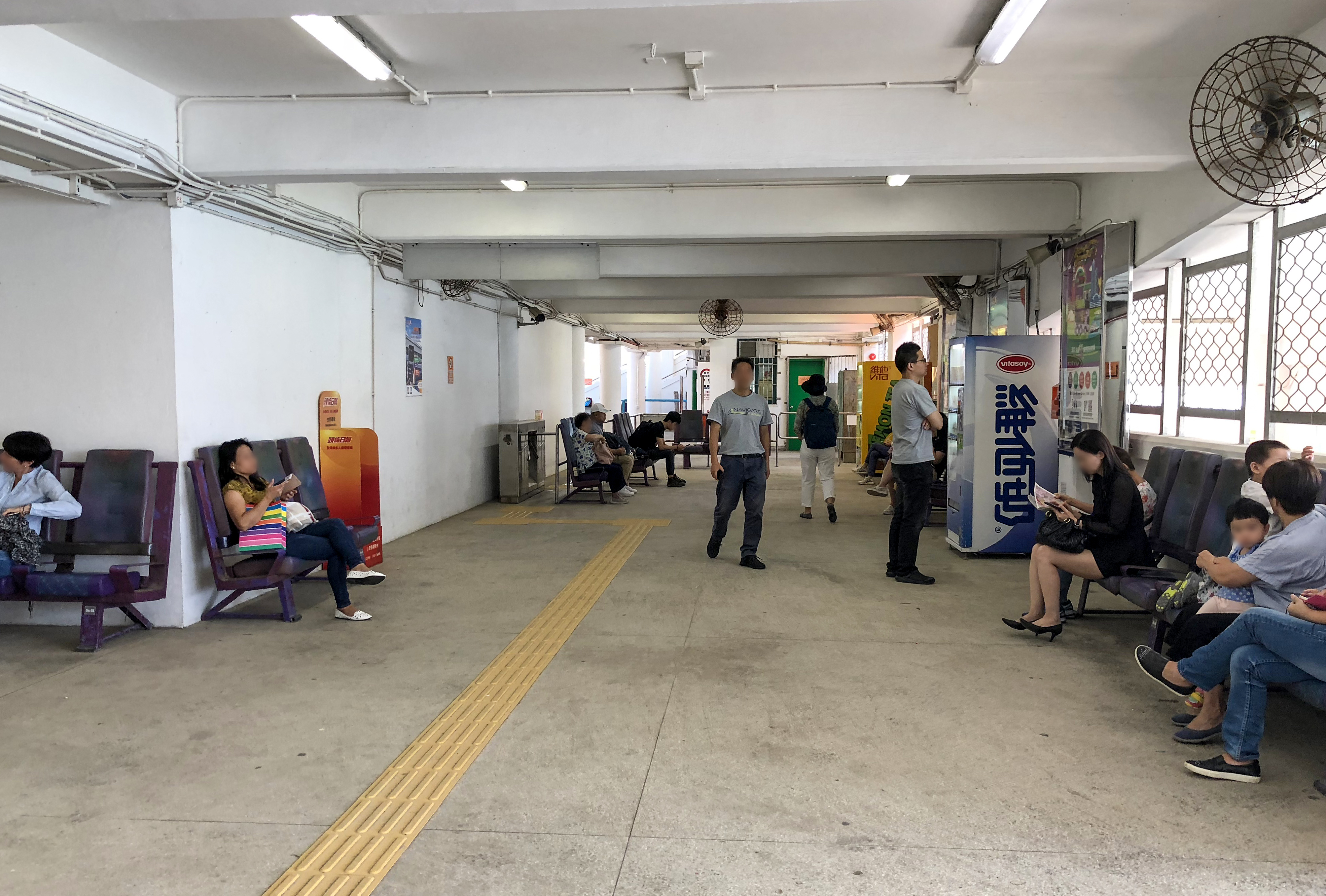 Services to North Point only.